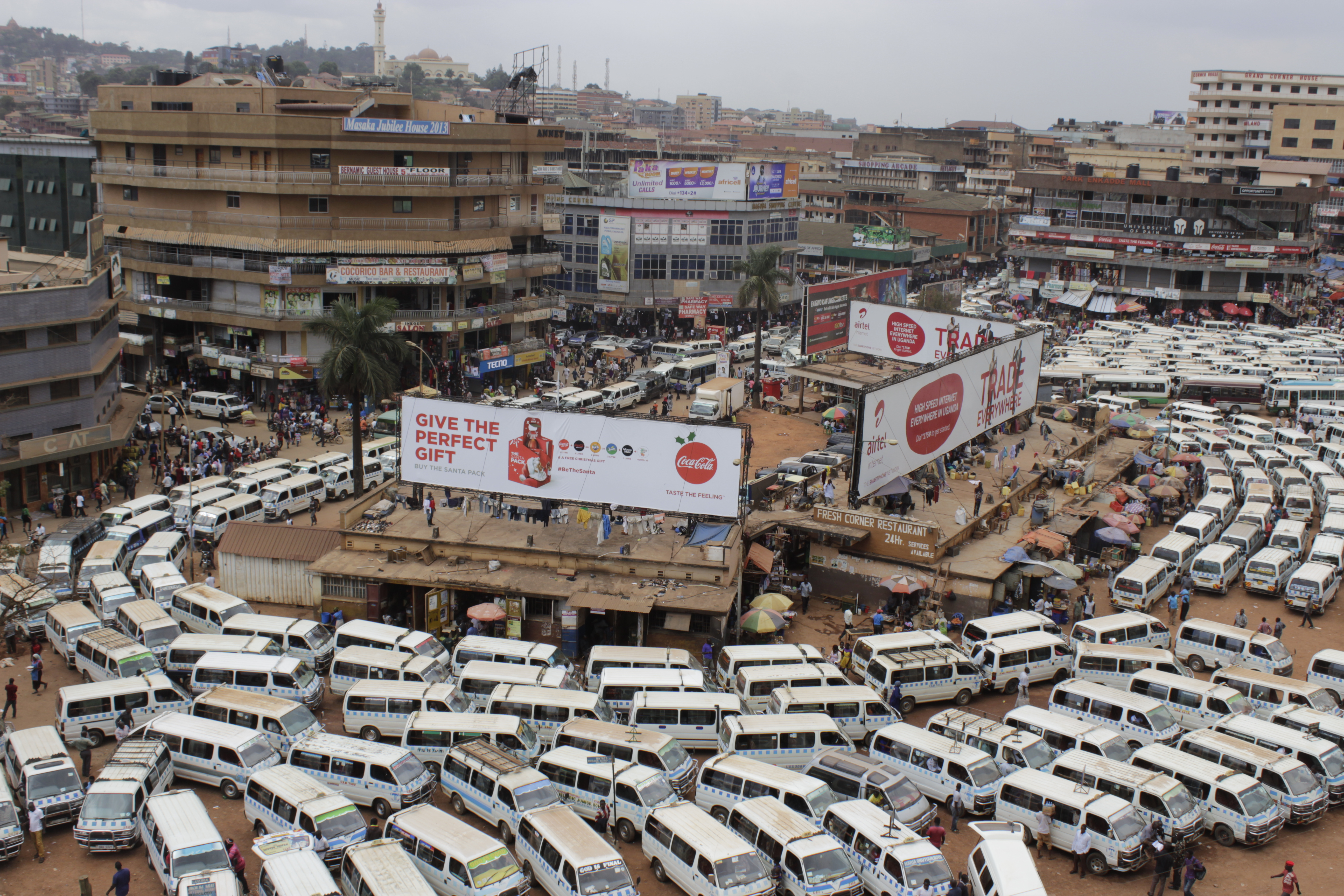 This is an image with the theme "Africa on the Move or Transport" from: Uganda